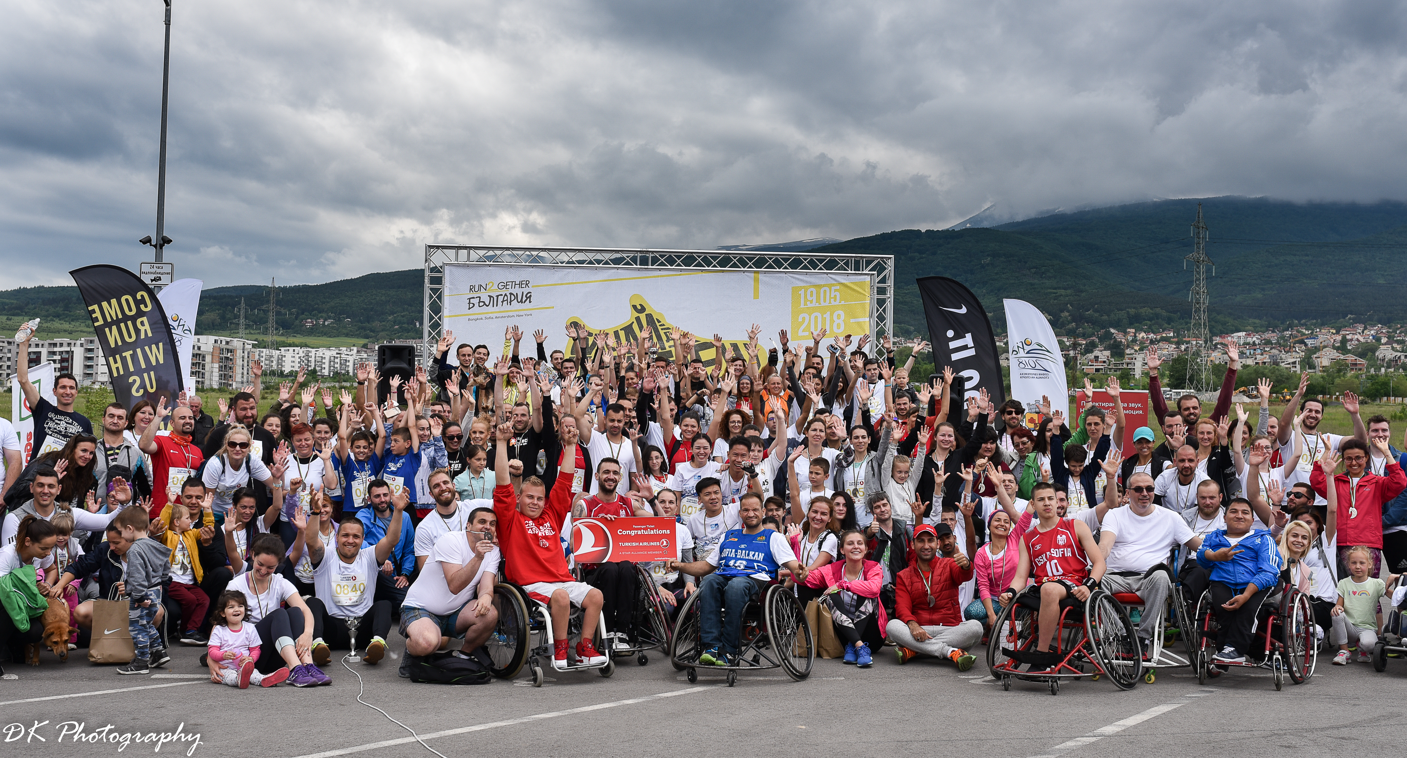 The marathon by couples Run2Gether Bulgaria 2018 gathered over 1,000 participants to support people with different abilities.